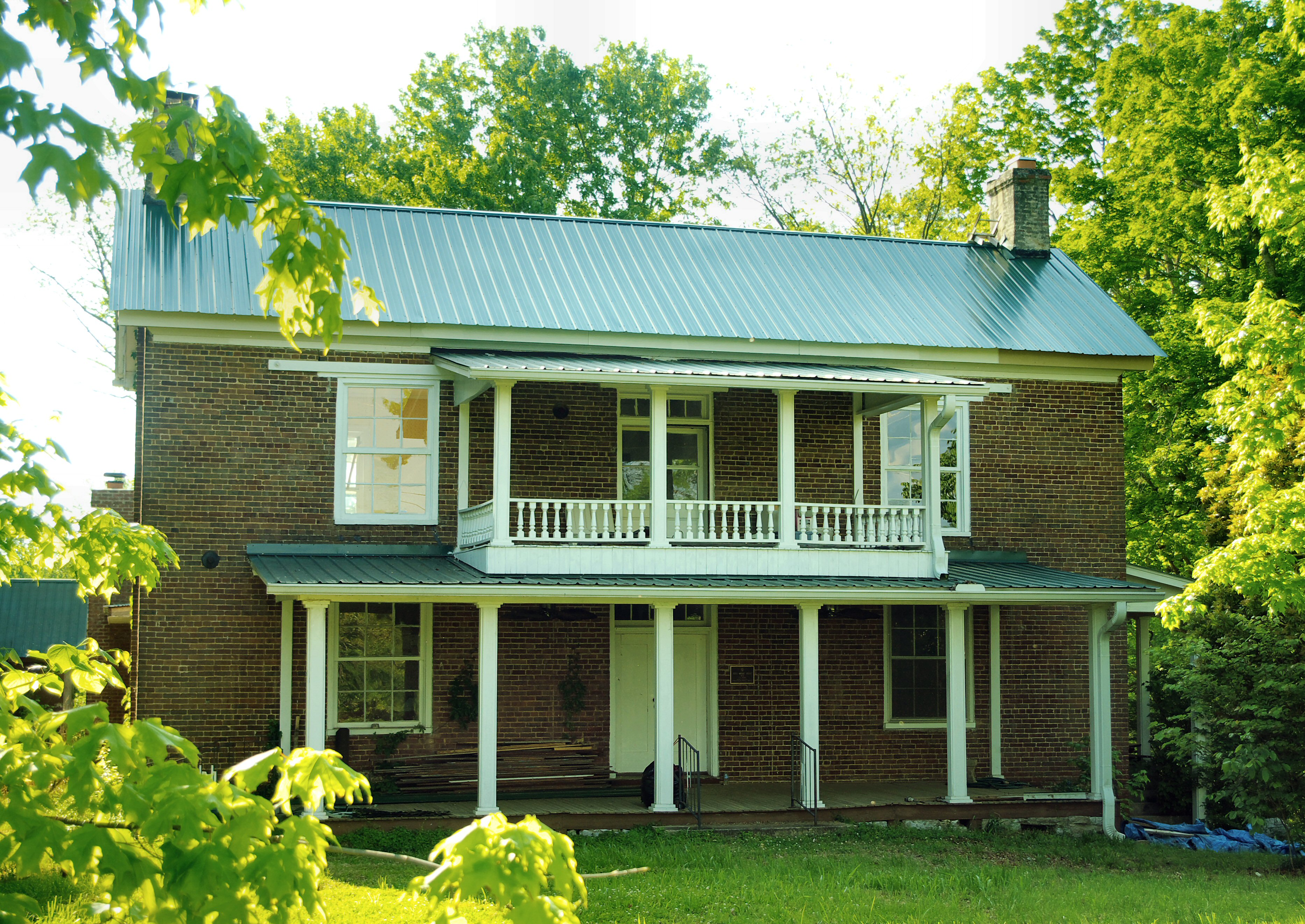 The Hunt-Moore House in Huntland, Tennessee, United States. Built in 1852, the house is now listed on the National Register of Historic Places.